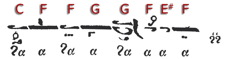 Exegesis of the enharmonic phthora nana (19th-century reception of Byzantine chant)